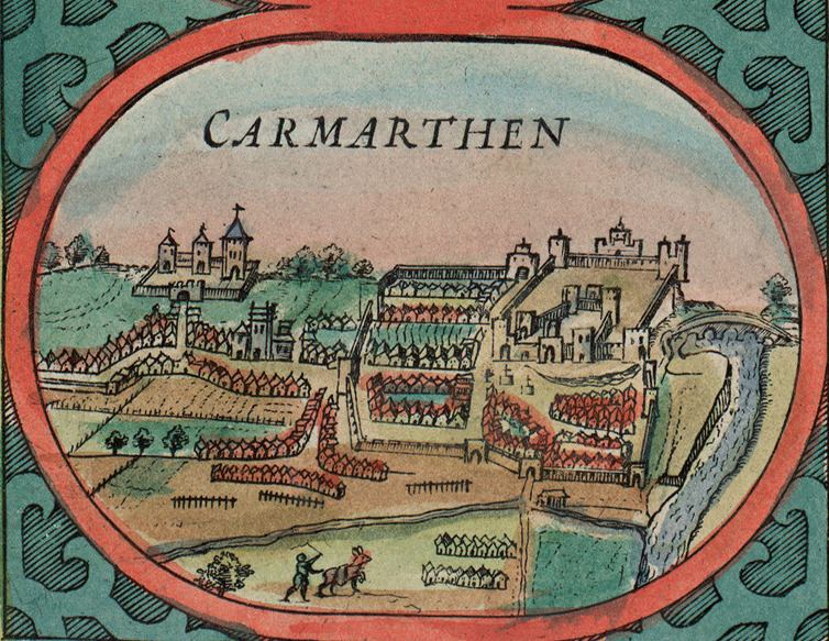 Insert from John Speeds County maps of Wales for first published in The Theatre of the Empire of Great Britain by George Humble